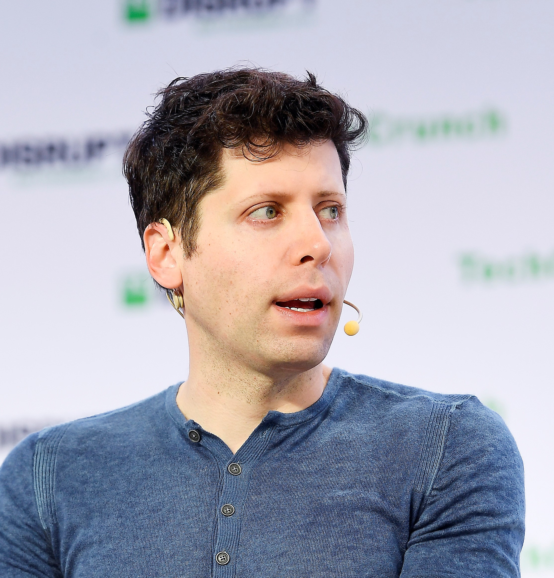 SAN FRANCISCO, CALIFORNIA - OCTOBER 03: OpenAI Co-Founder & CEO Sam Altman speaks onstage during TechCrunch Disrupt San Francisco 2019 at Moscone Convention Center on October 03, 2019 in San Francisco, California. (Photo by Steve Jennings/Getty Images for TechCrunch)